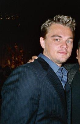 Actor Leonardo DiCaprio.